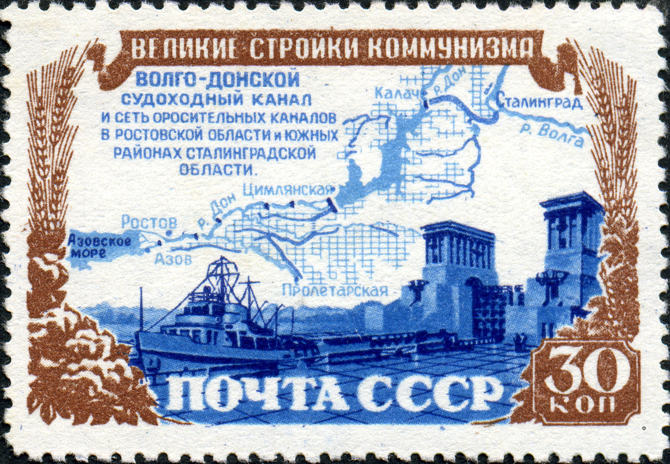 Stamp of the Soviet Union, 1951. Volga-Don Canal. CPA #1654.